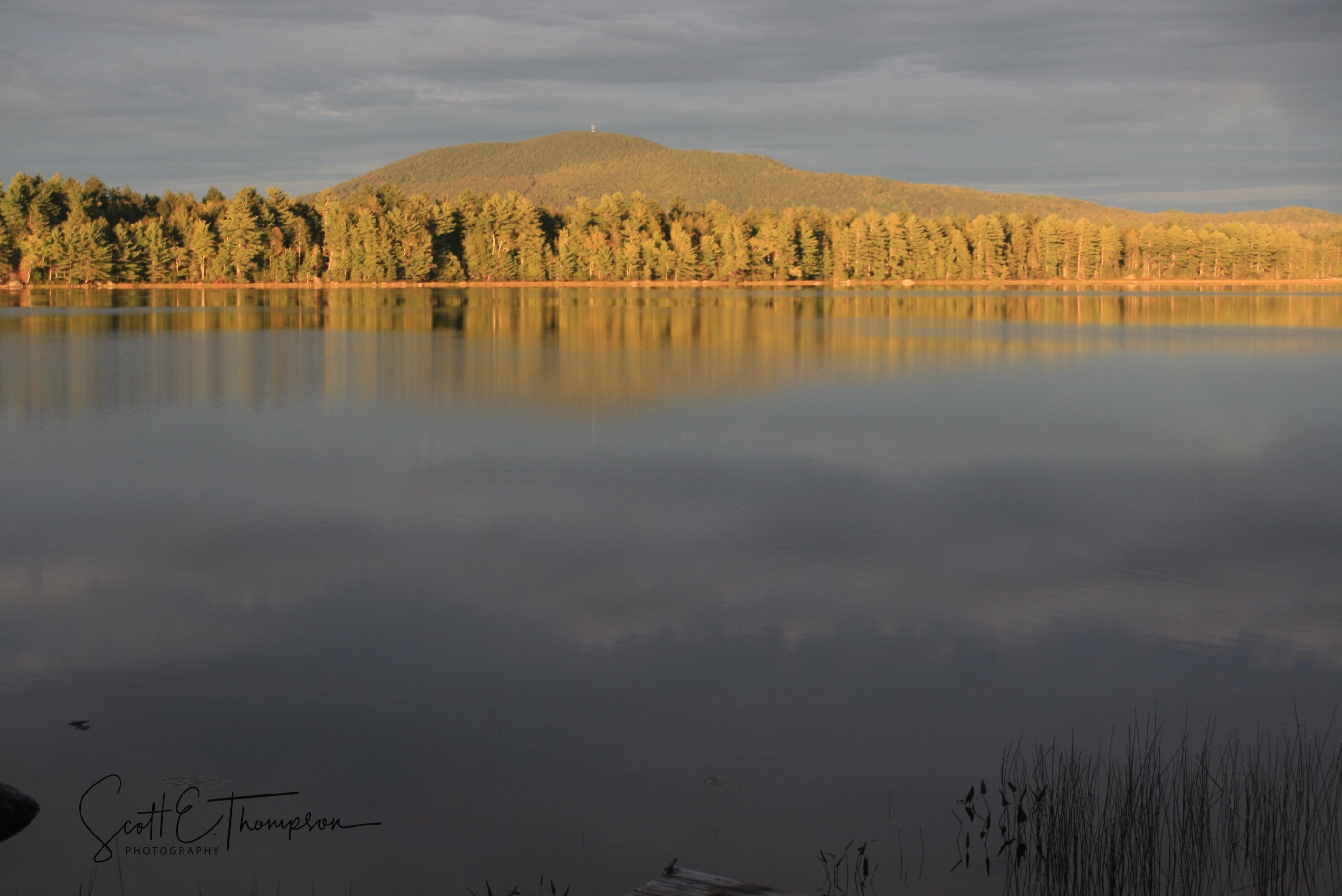 View of Lead Mountain from Lower Lead Mountain Pond.